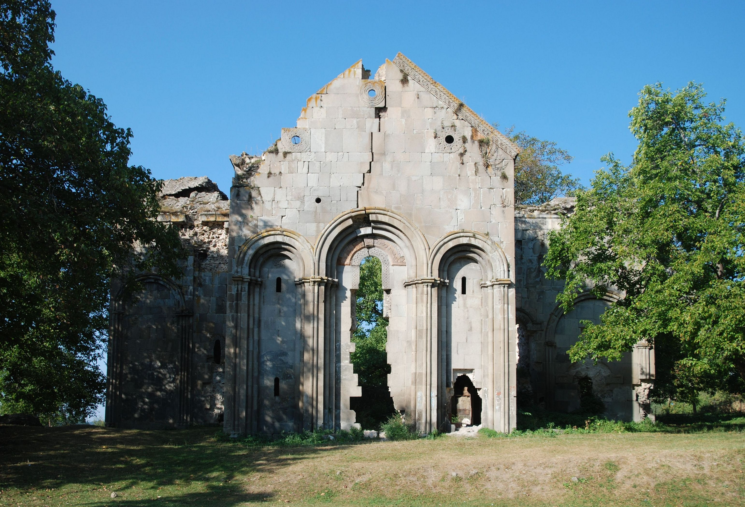 Tbeti, Georgian cathedral in Artvin province, east wall